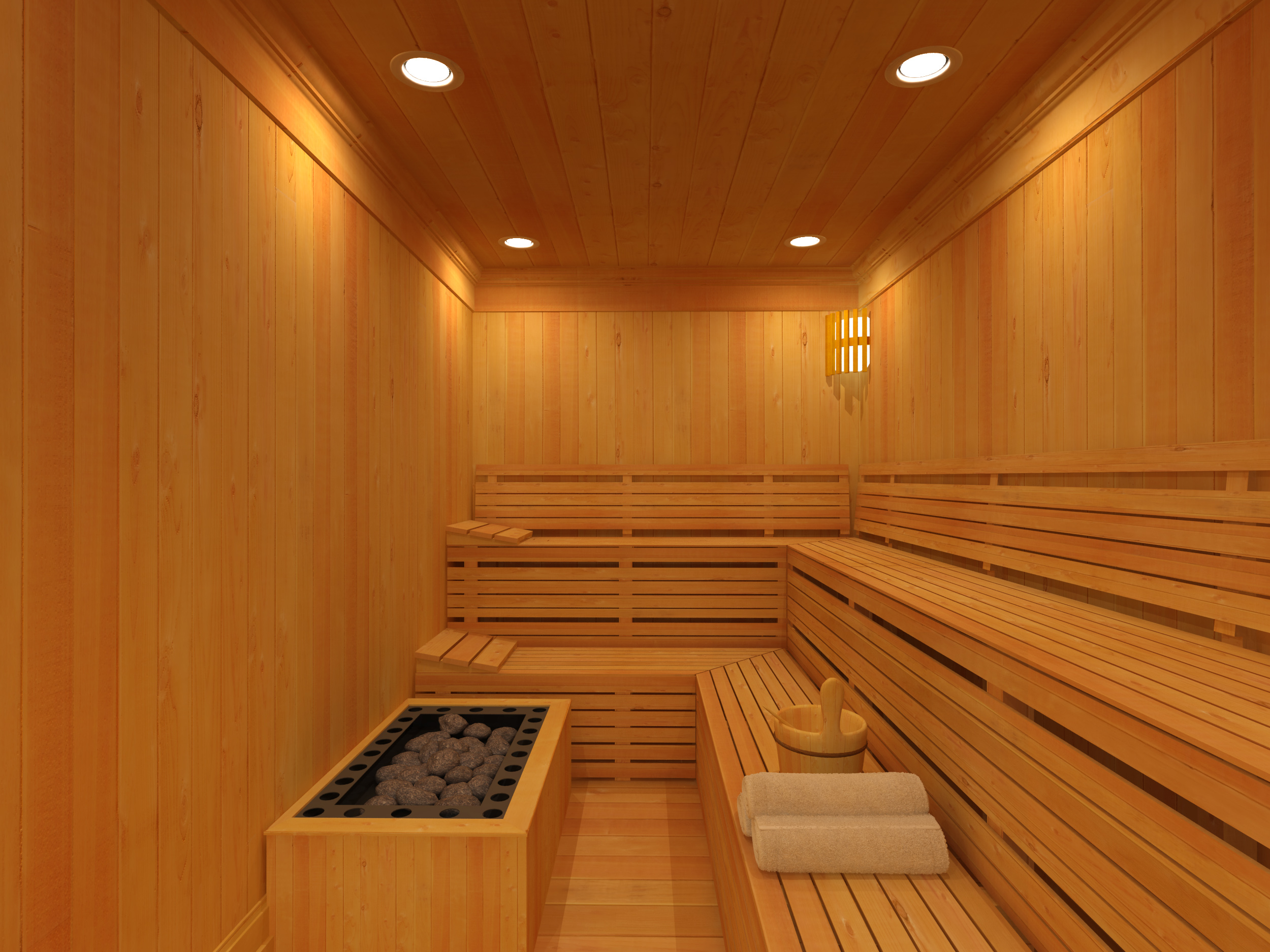 Rendering of Sauna at Highgrove